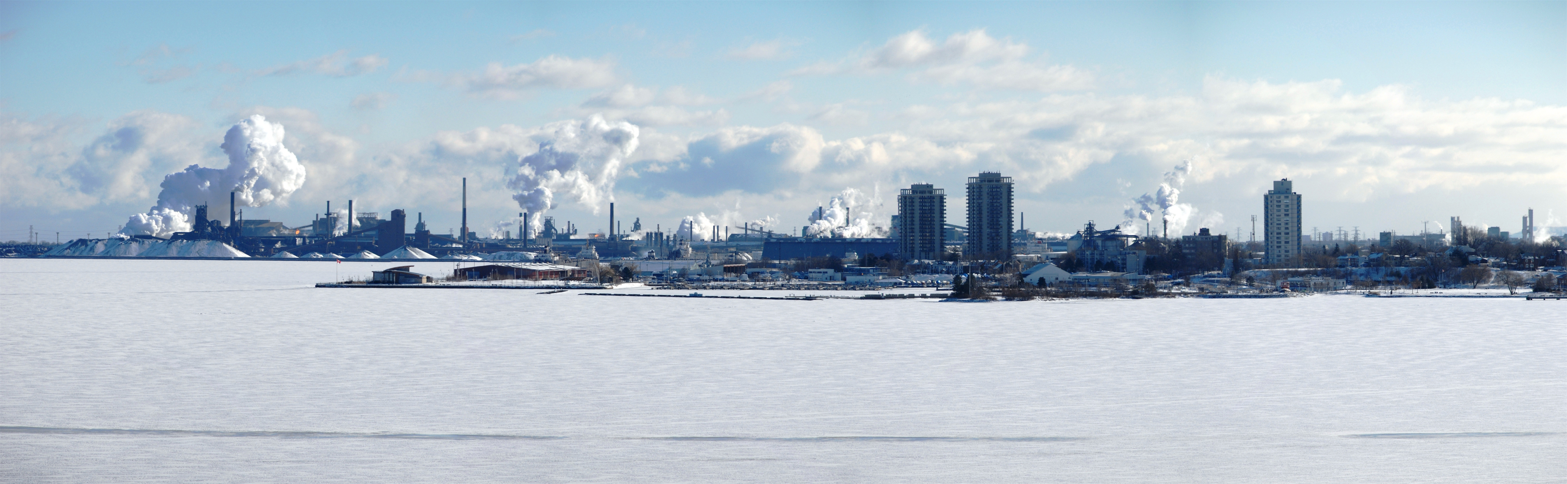 A panoramic view of Hamilton, Ontario, Canada, seen from the York Street Bridge. In -30 degrees Celsius, the pollution from the steel industry on the Hamilton waterfront is clearly visible.